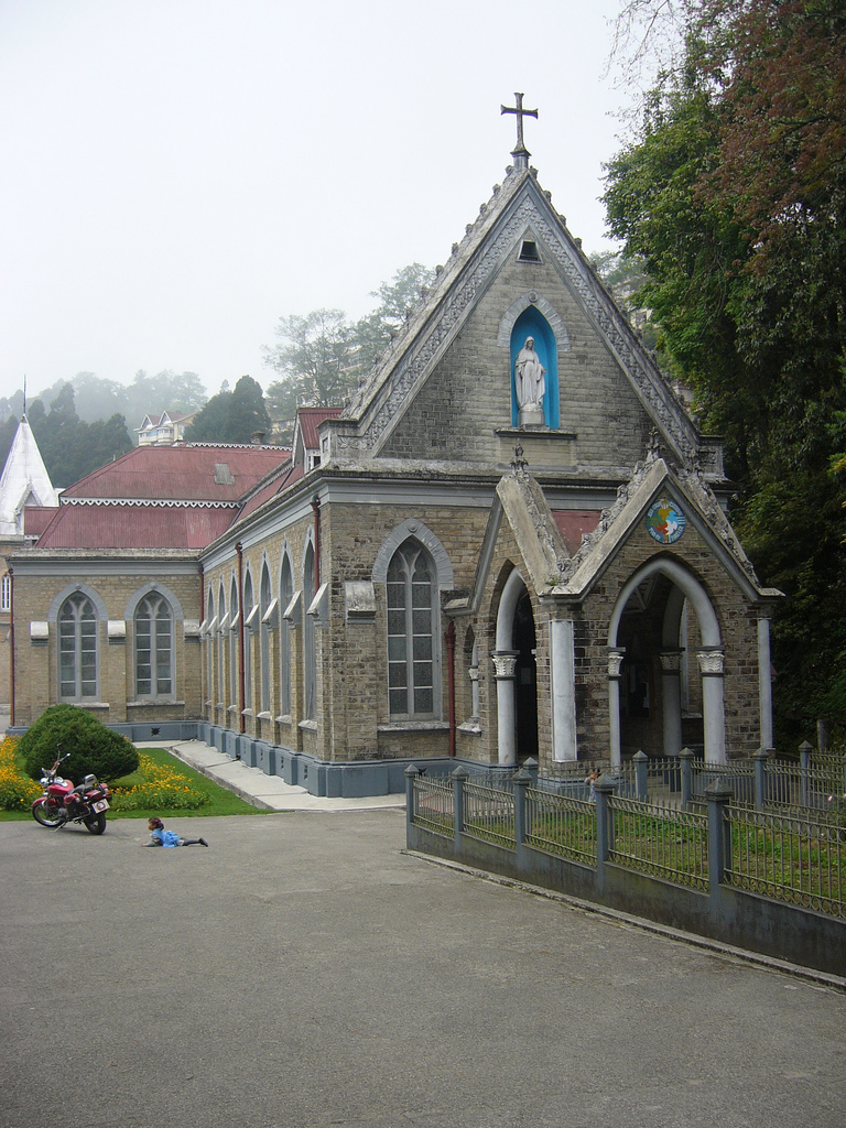 A Christian Building/architecture from British Raj era (British colonial era), in Ganga Maya Park, Darjeeling.